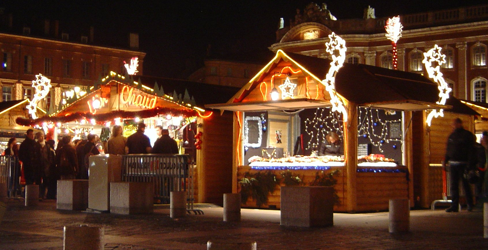 A Christmas market in Toulouse, France.